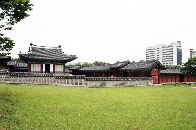 Another view of Changgyeonggung Palace and part of the Seoul skyline.